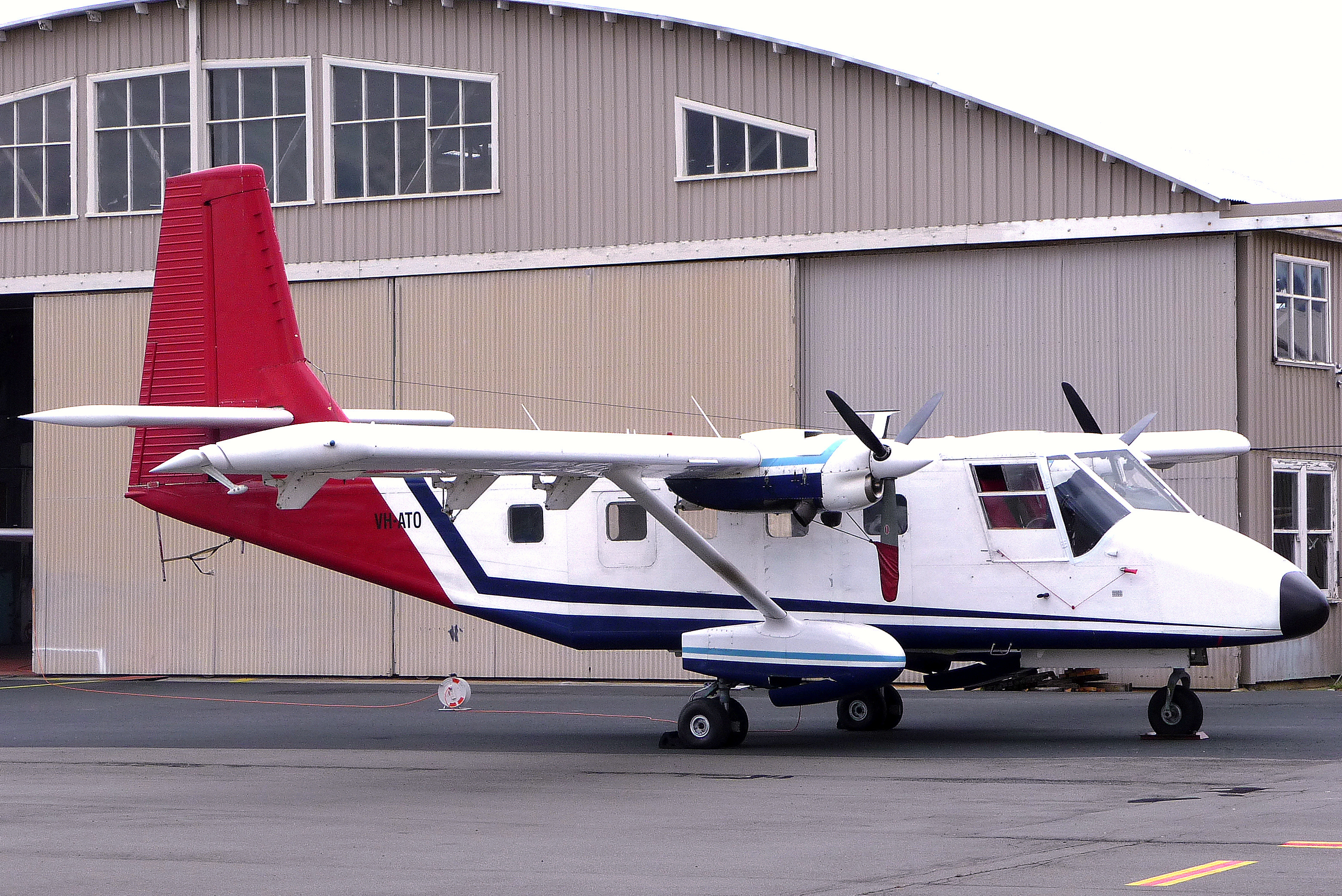 Airlines of Tasmania GAF N22C Nomad VH-ATO, as of 2009 the only Nomad registered in Australia. Digital image uploaded for use in the GAF Nomad article.